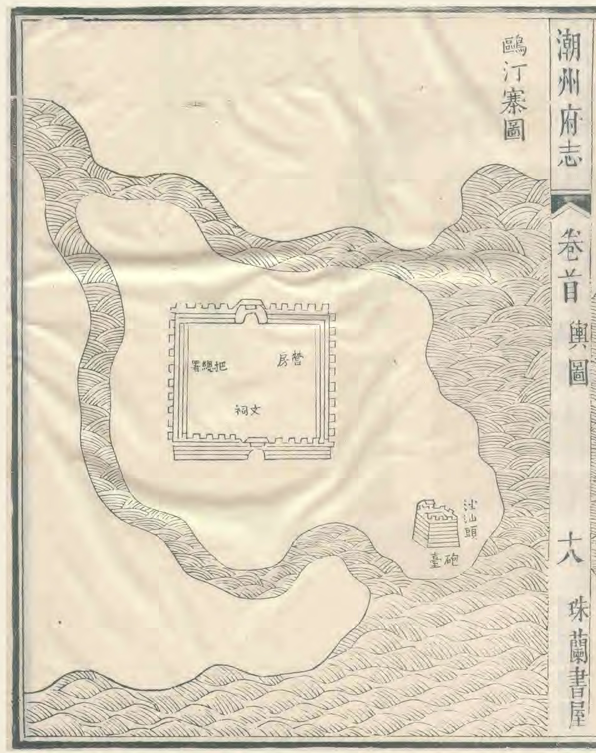 A picture in 《潮州府志》 to show Outing Walled Town.